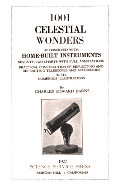 This is the title page of a book written and printed by Charles Barns.